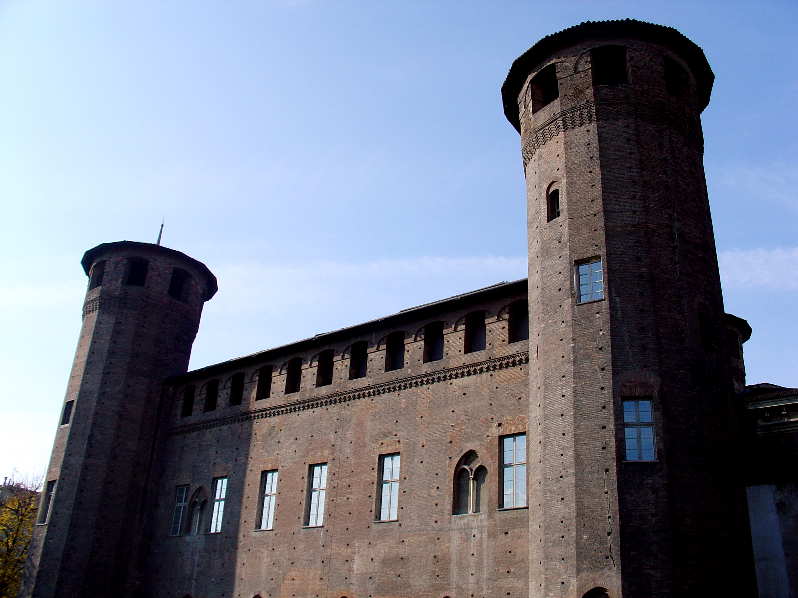 Back of Palazzo Madama, in Turin: castle.